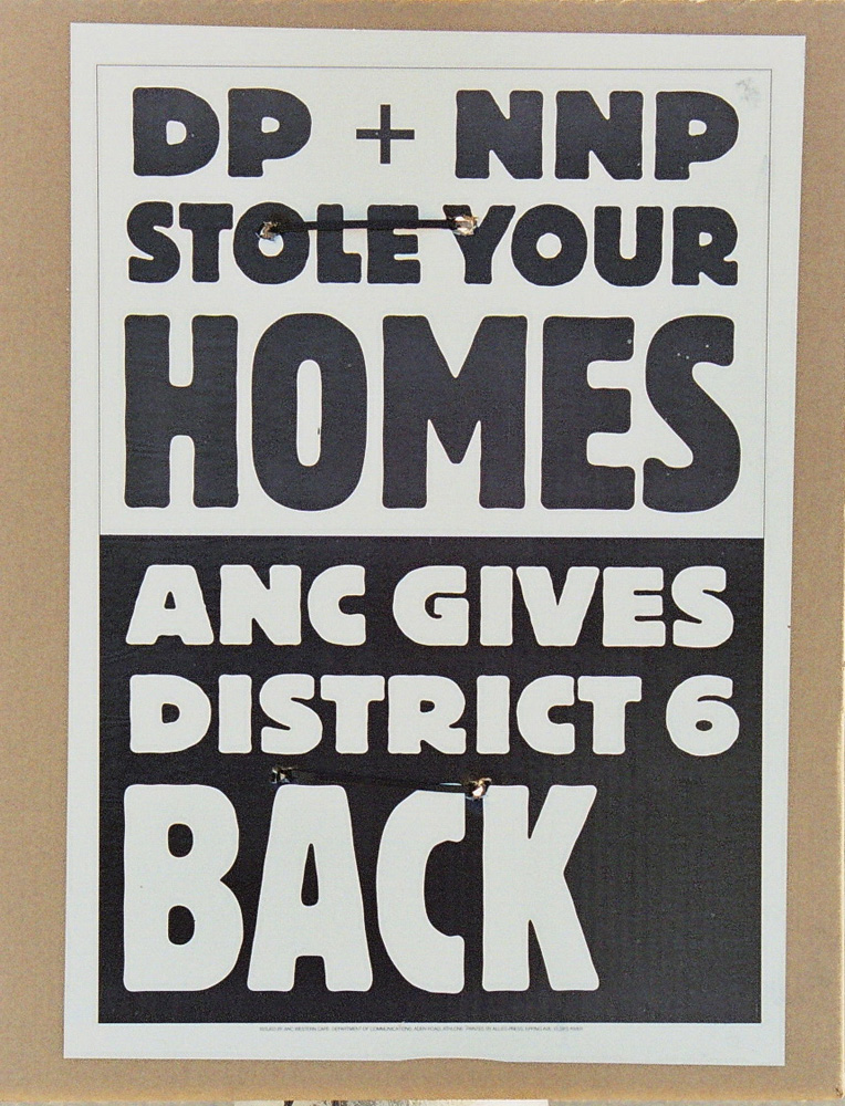 ANC election poster, trying to make political capital over the decision to "hand back" District Six to land claimants in Cape Town (South Africa), 2001. Picture by Henry Trotter. The author releases it to the public domain.